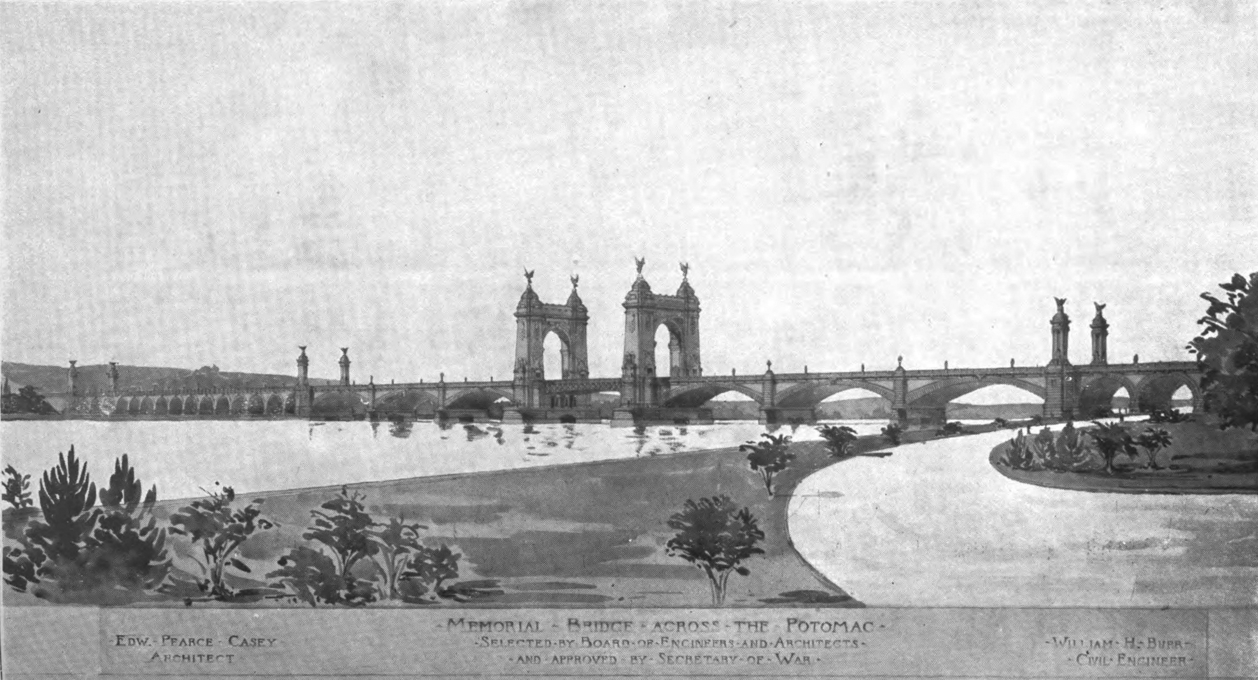 A design for a memorial bridge over the Potomac River in Washington, D.C., in the United States. This was designed in 1900-1901 by Edward Pearce Casey and William H. Burr, and accepted by the United States Secretary of War as acceptable for construction. This bridge was never built, but its low profile had a deep influence on the Arlington Memorial Bridge successfully proposed by the Senate Park Commission in its McMillan Plan in 1902. The view in this watercolor is from the D.C. side, looking across Analostan Island toward the Virginia shoreline.